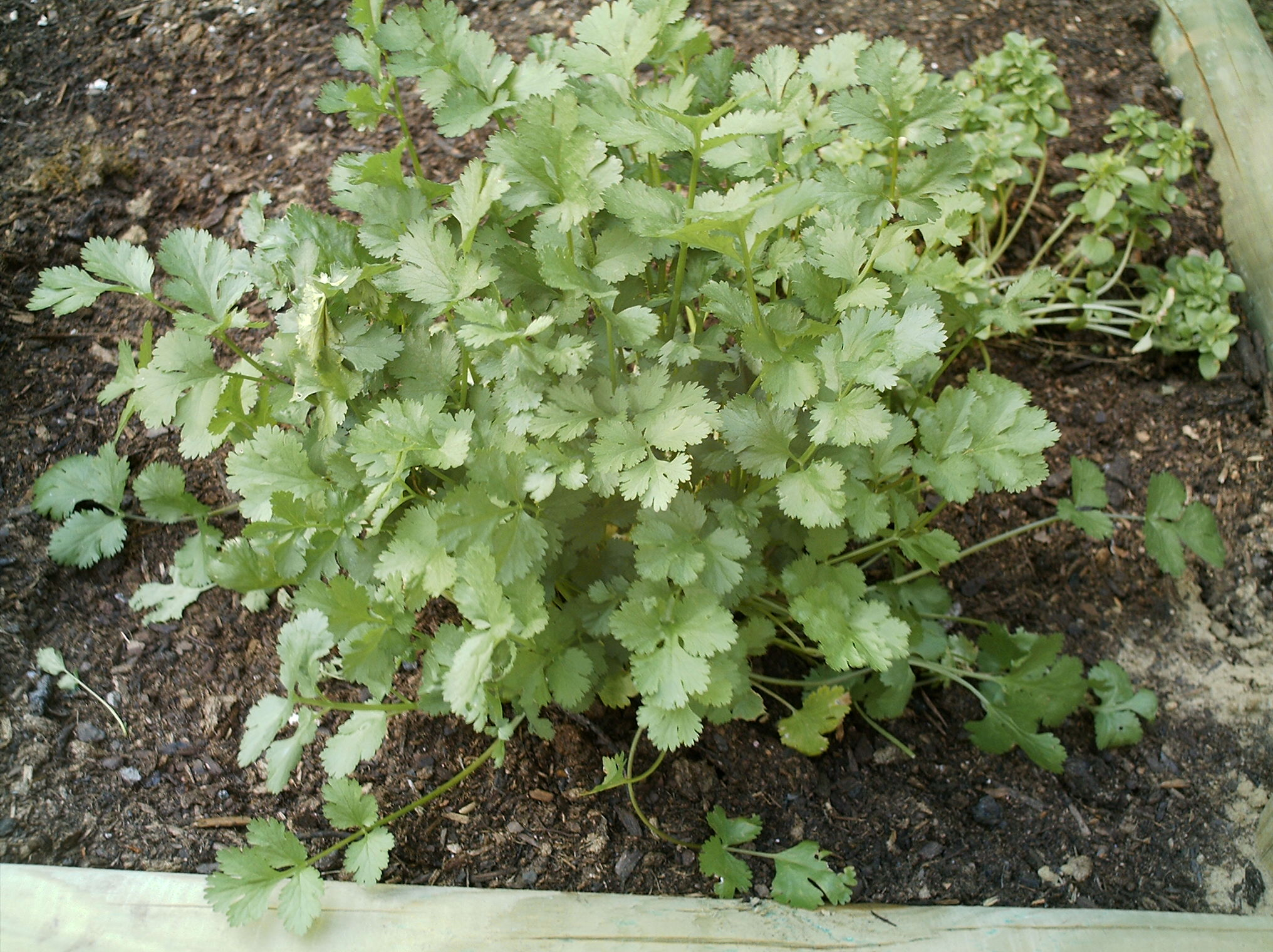 A parsley